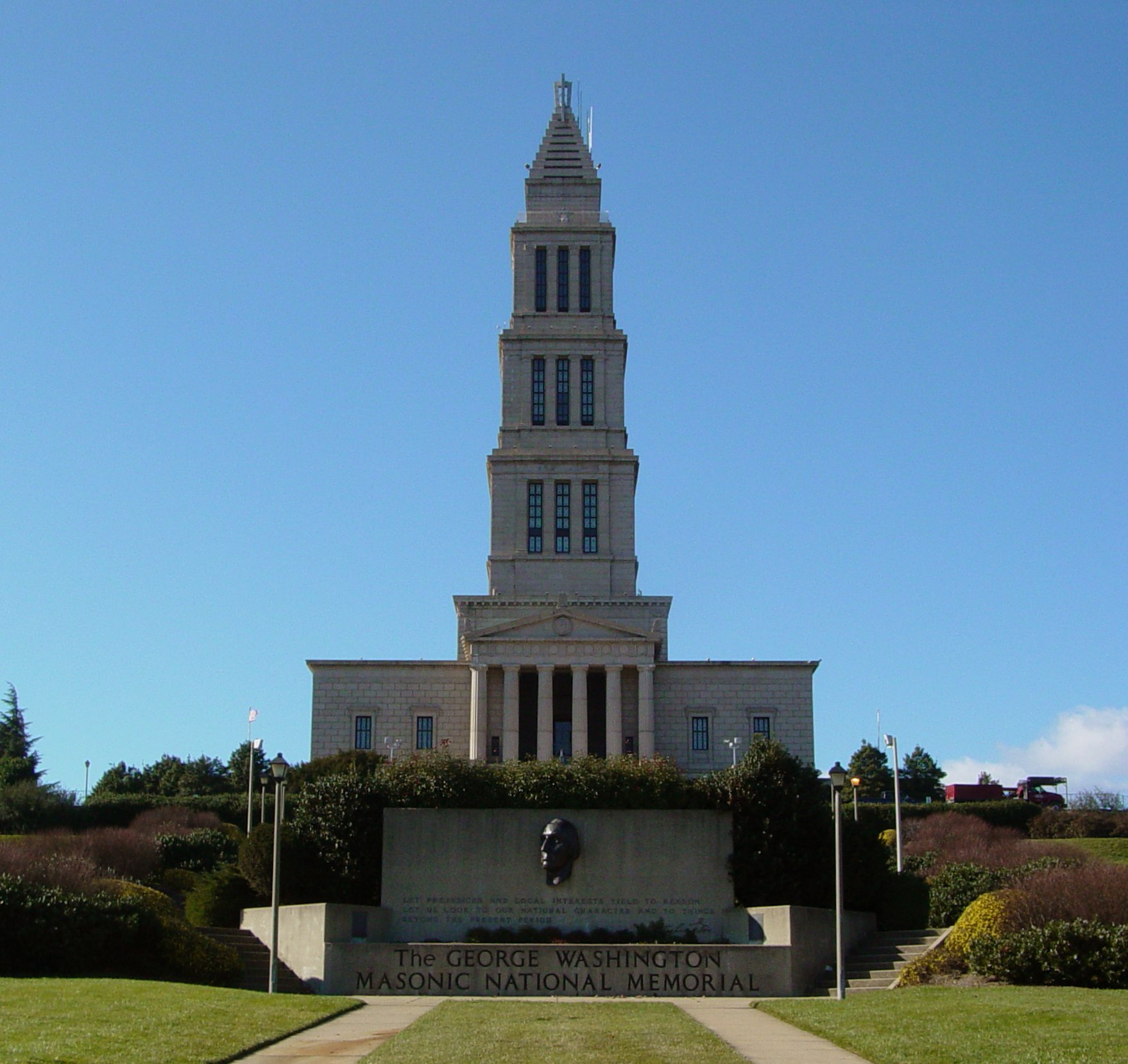 The grounds of the George Washington Masonic National Memorial.